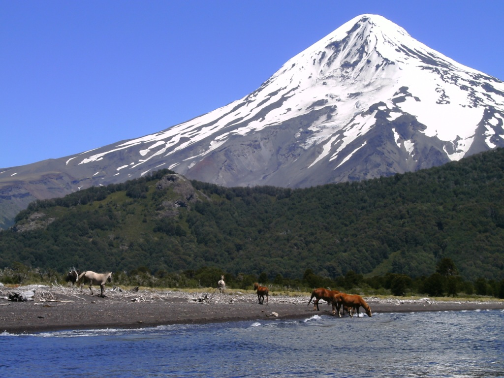 Lake Tromen, from the starting of Malleo river. Behind, Lanin volcano.